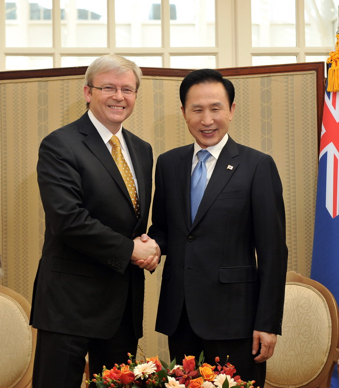 Ahead of the G20, President Lee met Australian Prime Minister Kevin Rudd in London